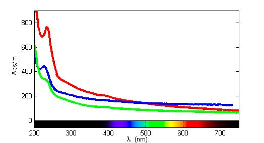 Characteristic UV/VIS spectra of septic sewage. Bisulphide results in a peak absorption around 230nm.